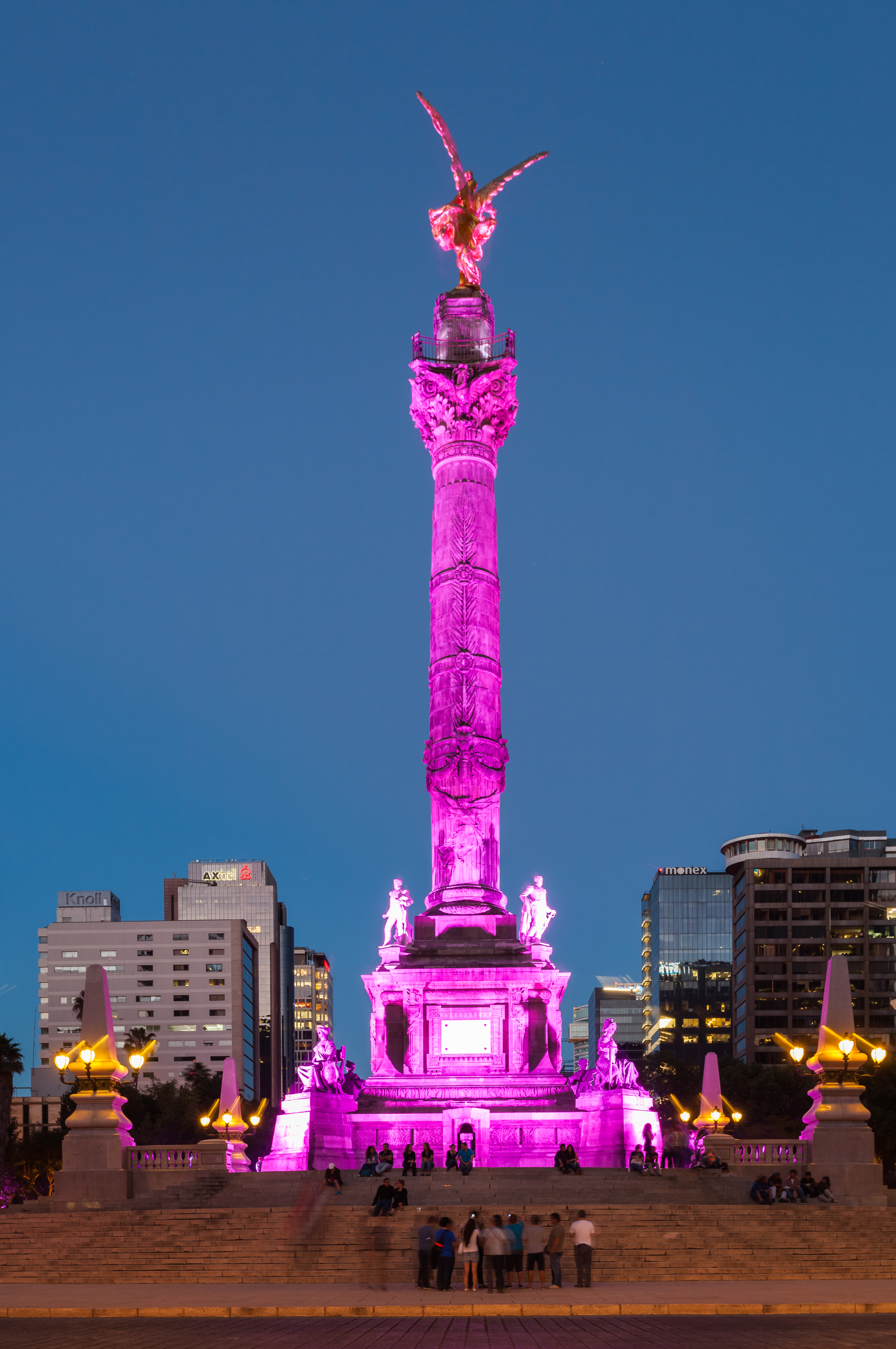 Independence Monument, Mexico City, Mexico